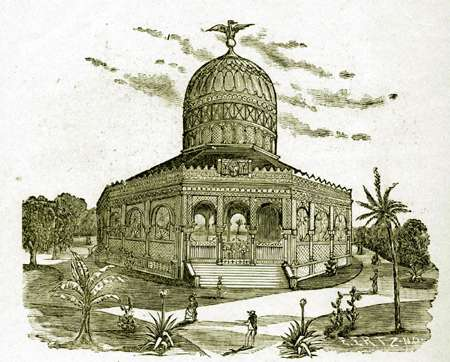 Engraving of The Octagonal Building, part of Mexico exhibit at 1884 World's Fair, New Orleans, Louisiana, USA. "The Octagonal Building: The Alhambra palace above mentioned, under direction of Senor Gilberto Crespo, a distinguished mining engineer from Mexico, was filled with minerals of rare beauty and value. Large glass cases, admirably suited for the purpose of the display, were ranged in two circles, the smaller one immediately surrounding the inner octagon and each mineral State of Mexico was represented by their contents. The States having the finest displays were Sinaloa, Chihuahua, Zacatecas, Guanajuato and Hidalgo, whose immense resources in iron, copper, zinc and lead, as well as in the more precious metals of gold and silver, were excellently represented. Others of the cases contained specimens of Mexican skill in jewelry filagree work, and as this peculiarly beautiful work actually originated in Mexico, though since largely transferred to Italy and some other countries of the Old World, some veritable artistic treasures were seen. Precious stones were shown, opals from Queretaro State predominating, and the abundant riches of Mexico were in every way admirable represented. In the center of the mineral palace, immediately under the dome, was built up a small pyramid of precious metals, and beneath the outer circle of cases were arrayed collections of beautiful shrubs from the tropics. The colored windows of the building showed the great display to most excellent advantage." -- Herbert S. Fairall, The World's Industrial and Cotton Centennial Exposition, New Orleans, 1884-85 (Iowa City, 1885)